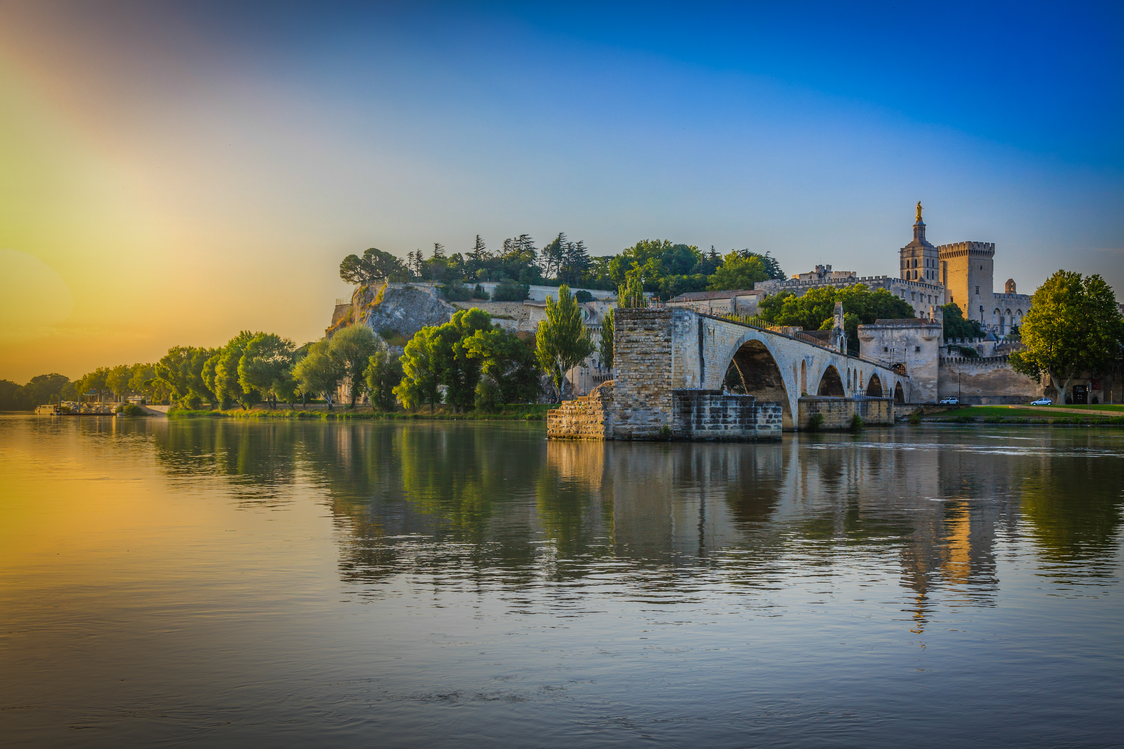 Saint-Bénezet Bridge in Avignon (Southeastern France).